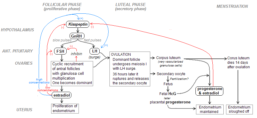 Created based on lectures given at University of Pittsburgh Medical School